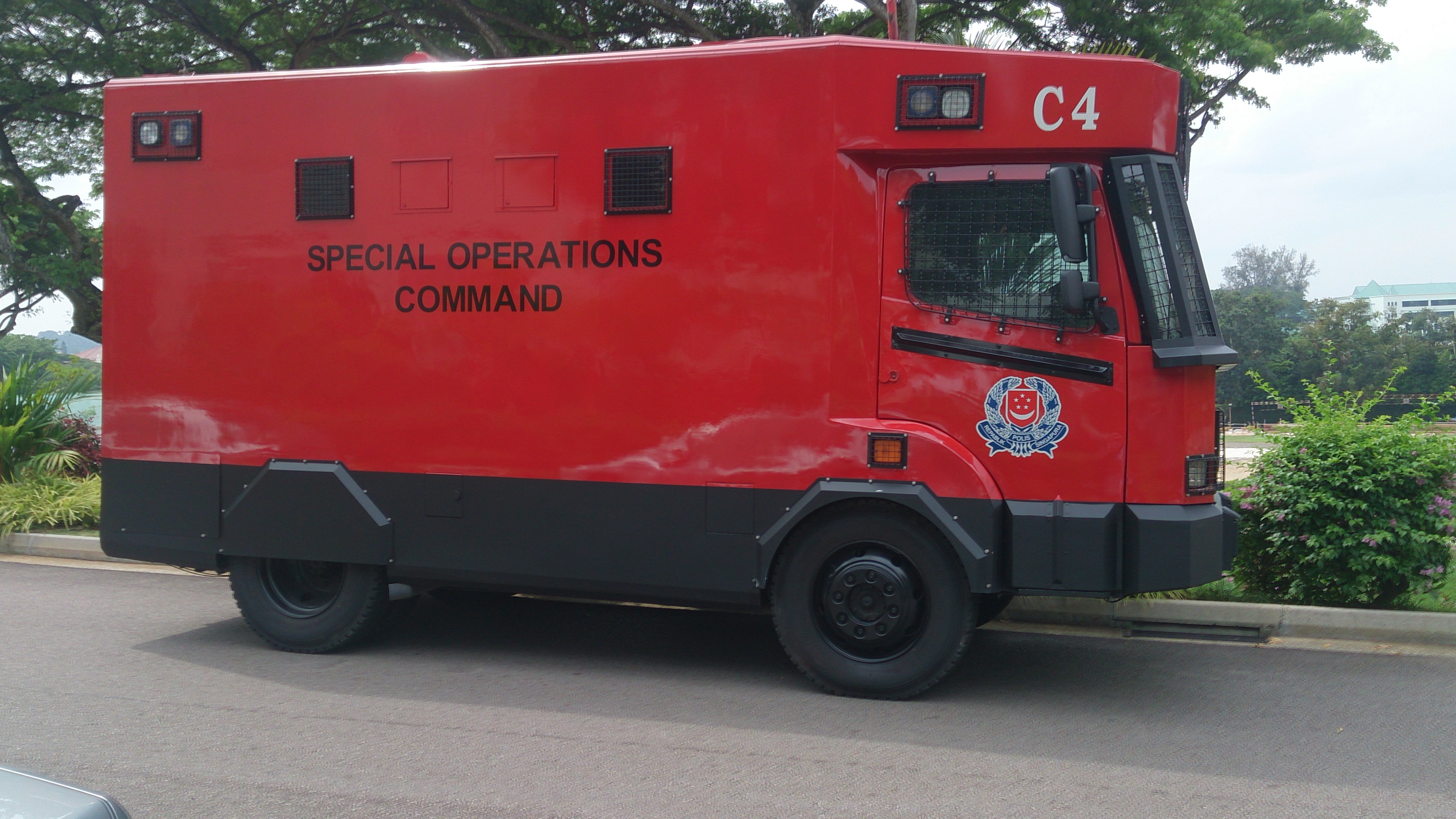 Special Operations Command